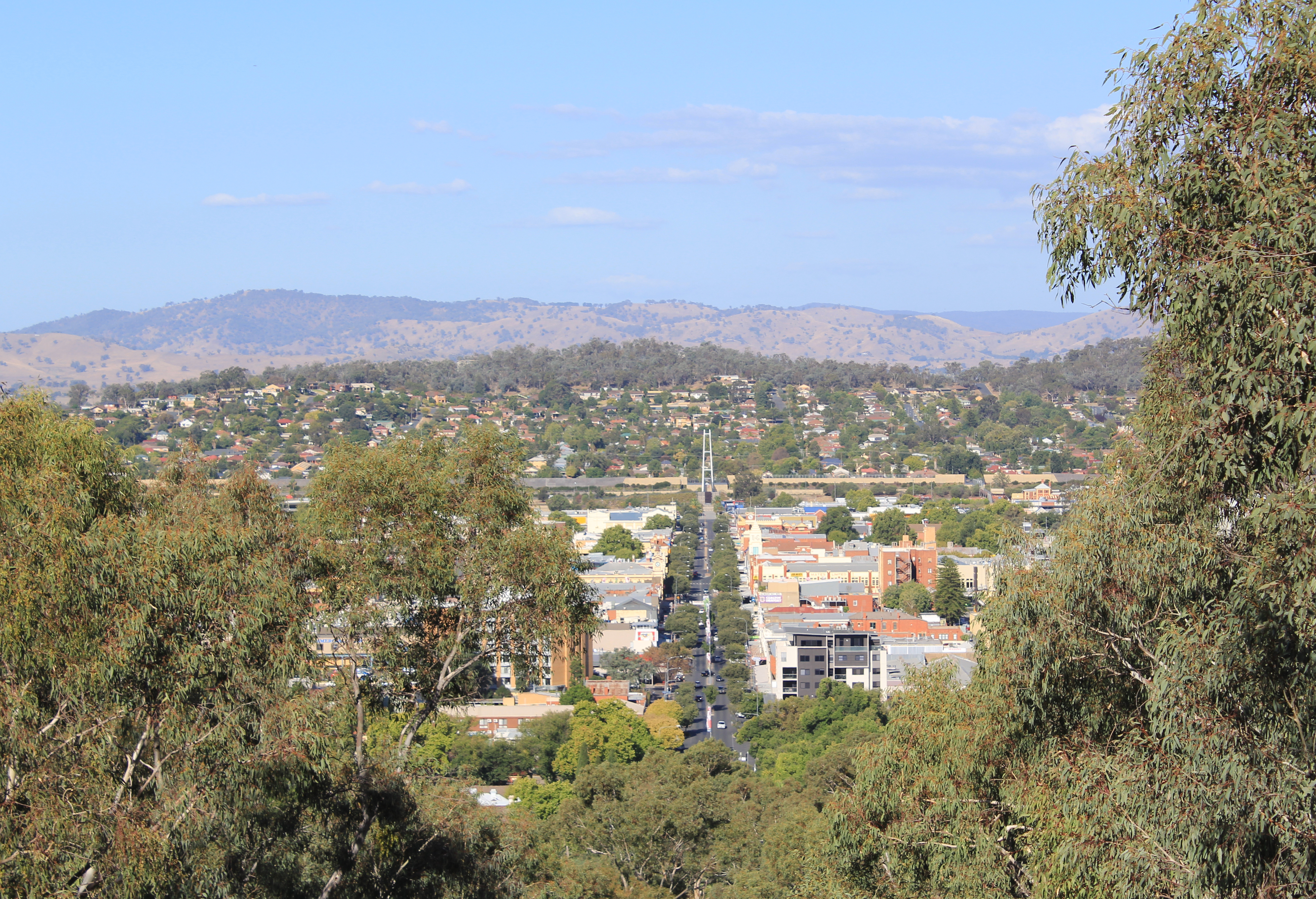 Albury CBD as viewed from the Monument Hill Lookout, looking East.